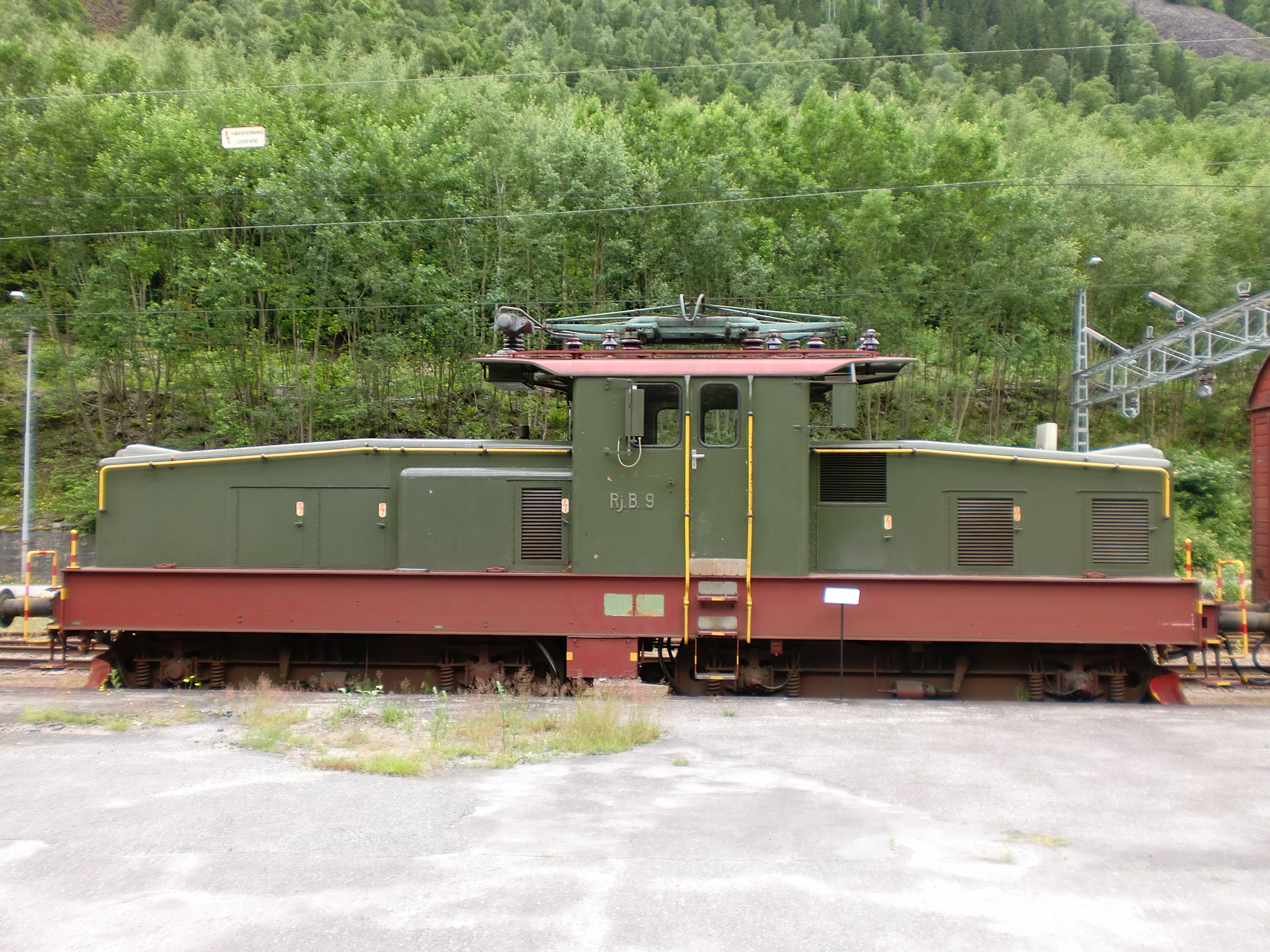 The locomotive Rj.B (Rjukanbanen, the Rjukan line) 9 at Rjukan station.